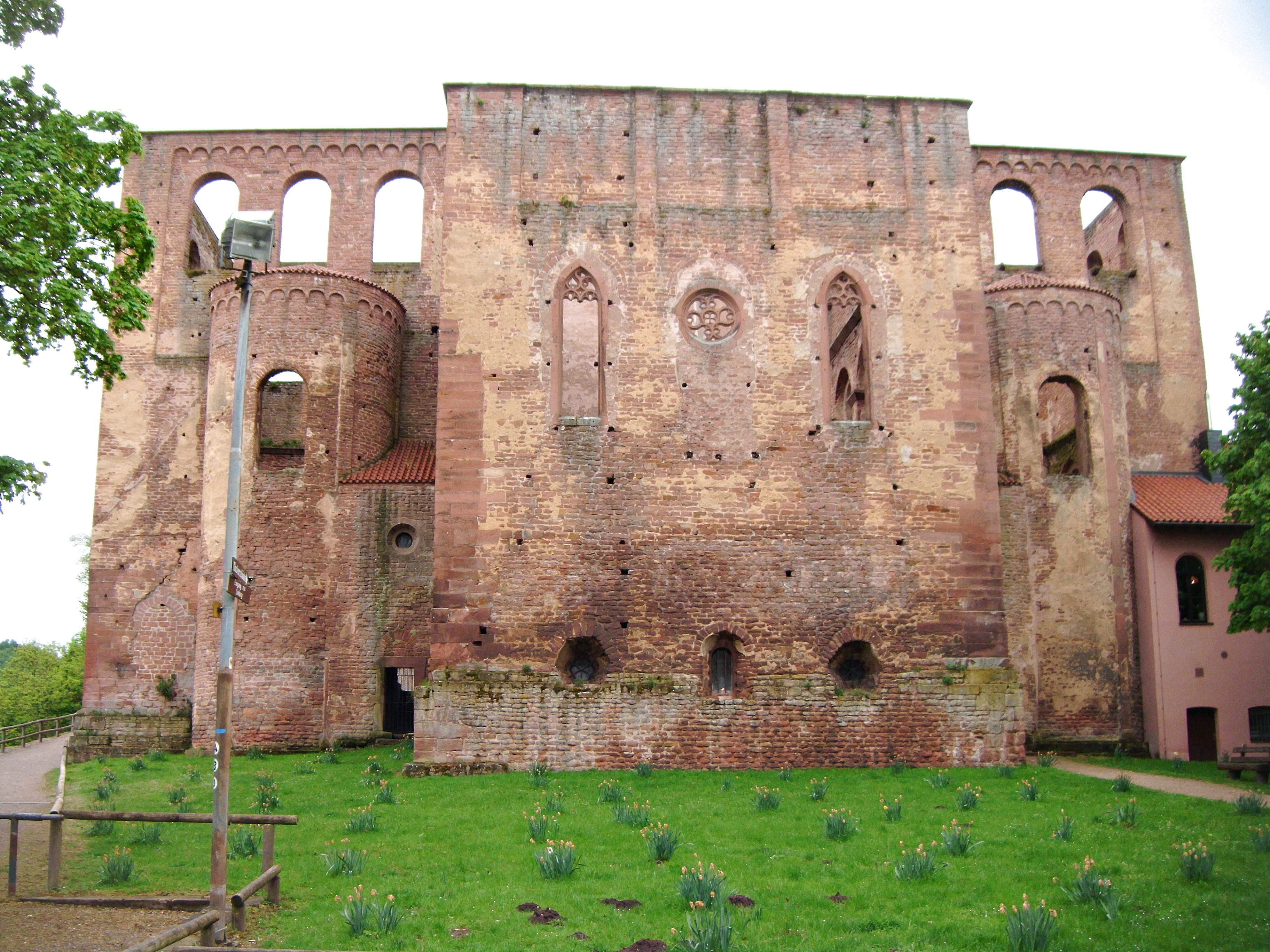 Klosterruine Limburg von Osten